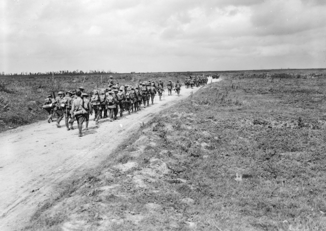 Troops from the Australian 26th Battalion march to the front around Picardie, France